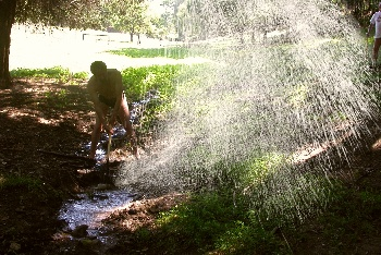 Player hoping to hit his ball out of a stream during a game of Extreme American Croquet